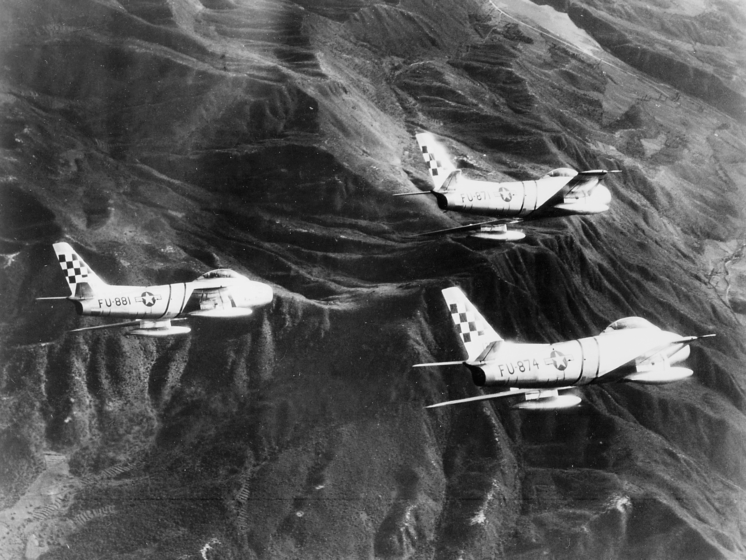 Three U.S. Air Force North American F-86F-1-NA Sabre fighters (s/n 51-2871, 51-2874, 51-2881) of the 51st Fighter Interceptor Wing over Korea, ca. 1953.